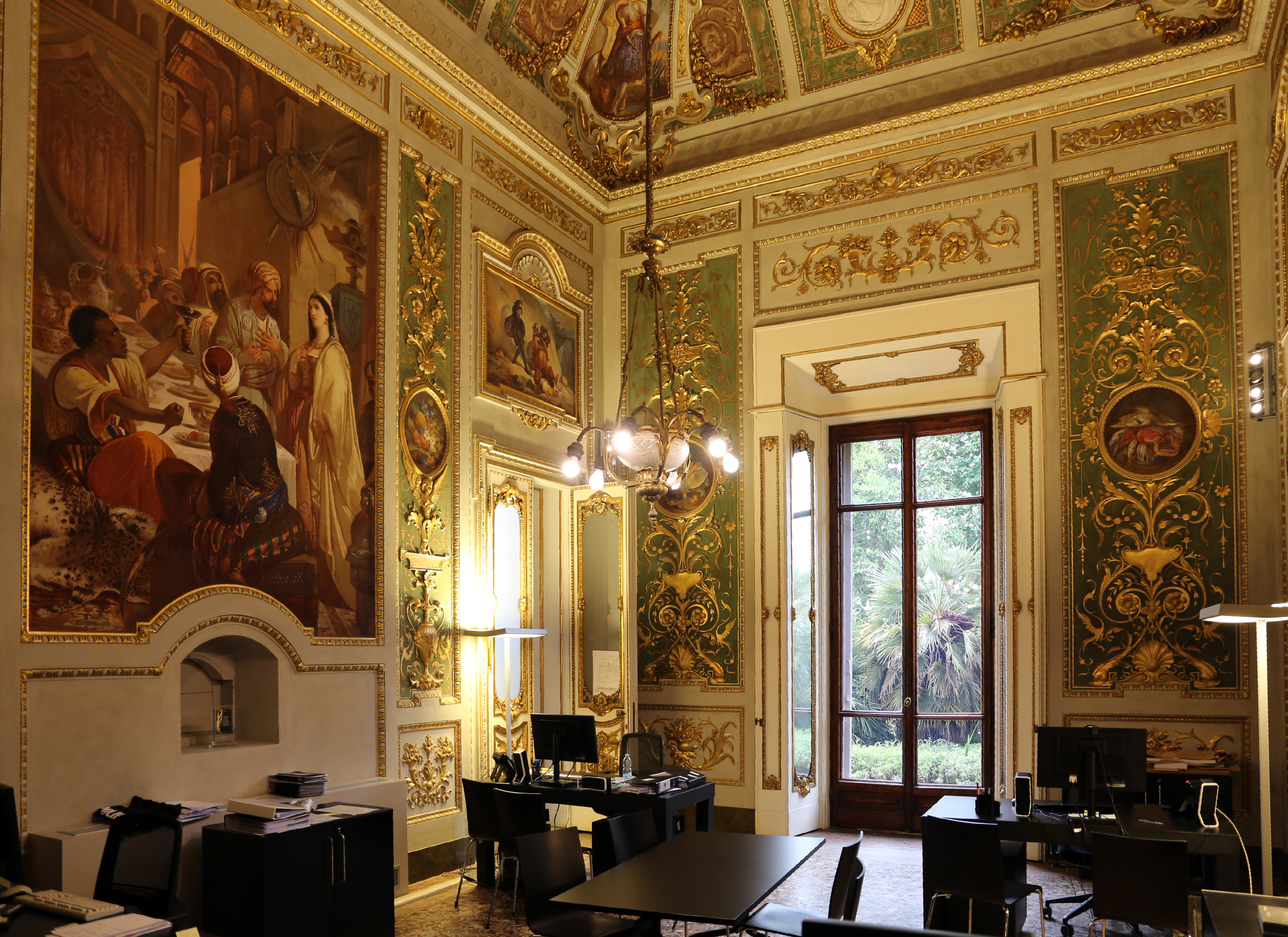 Villa Favard - Tasso Room